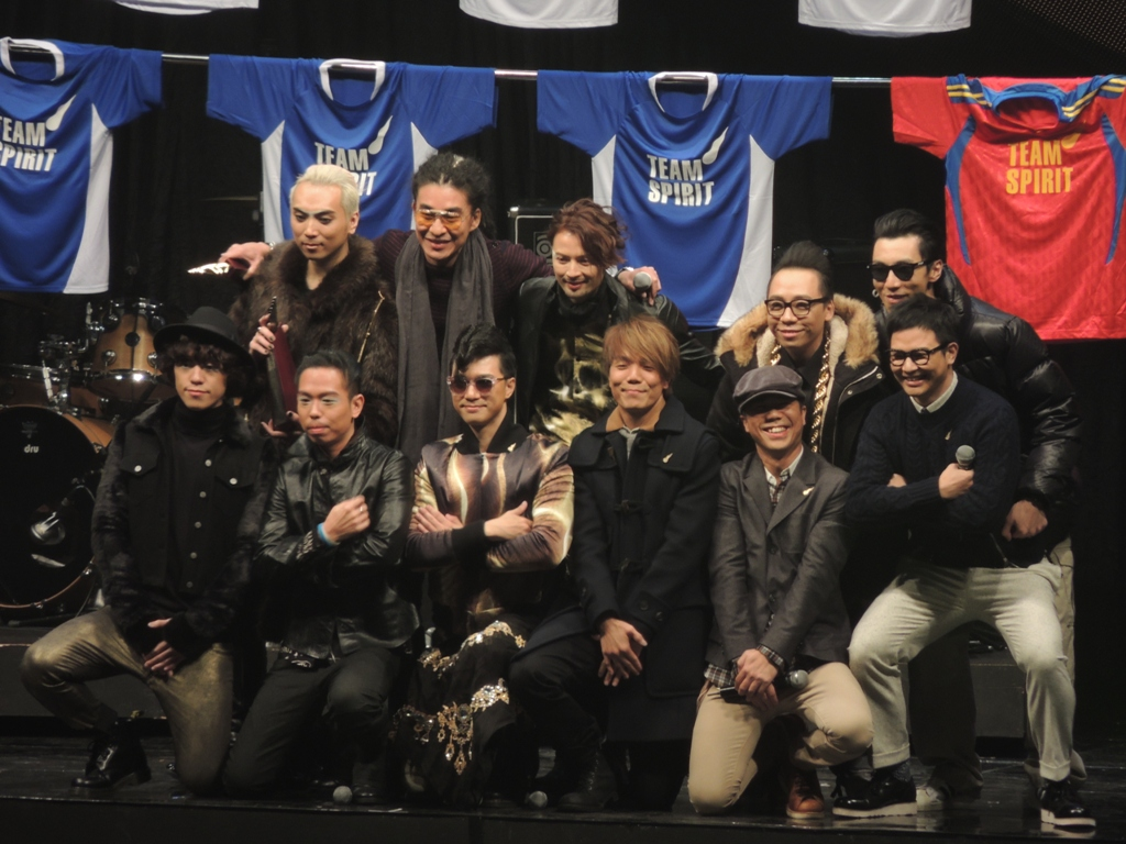 USCA2012 Best Group Awards, Ultimate Song Chart Awards 2012